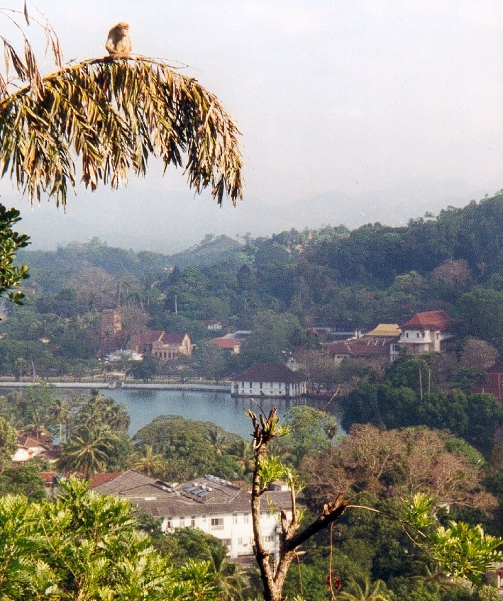 View over the lake in Kandy (Sri Lanka) from Rajapihilla Mawatha.